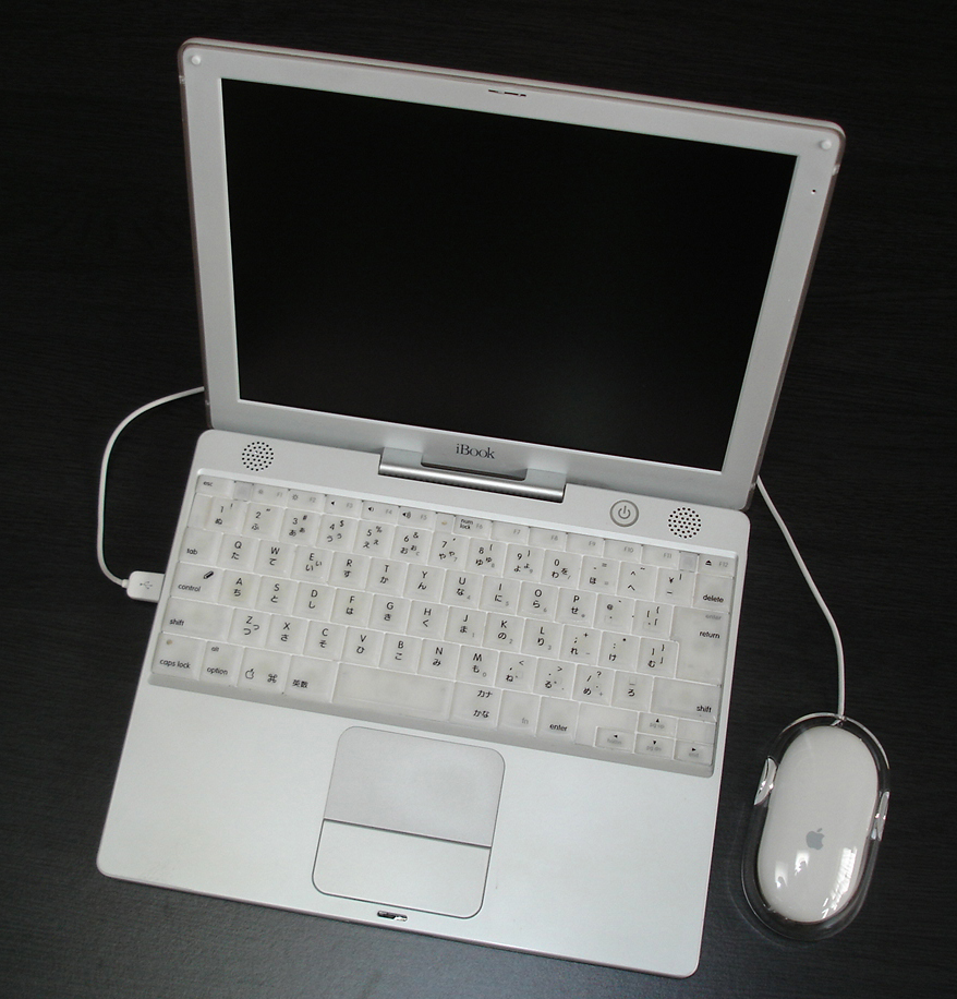 White Apple iBook G3 with Apple Pro Mouse.